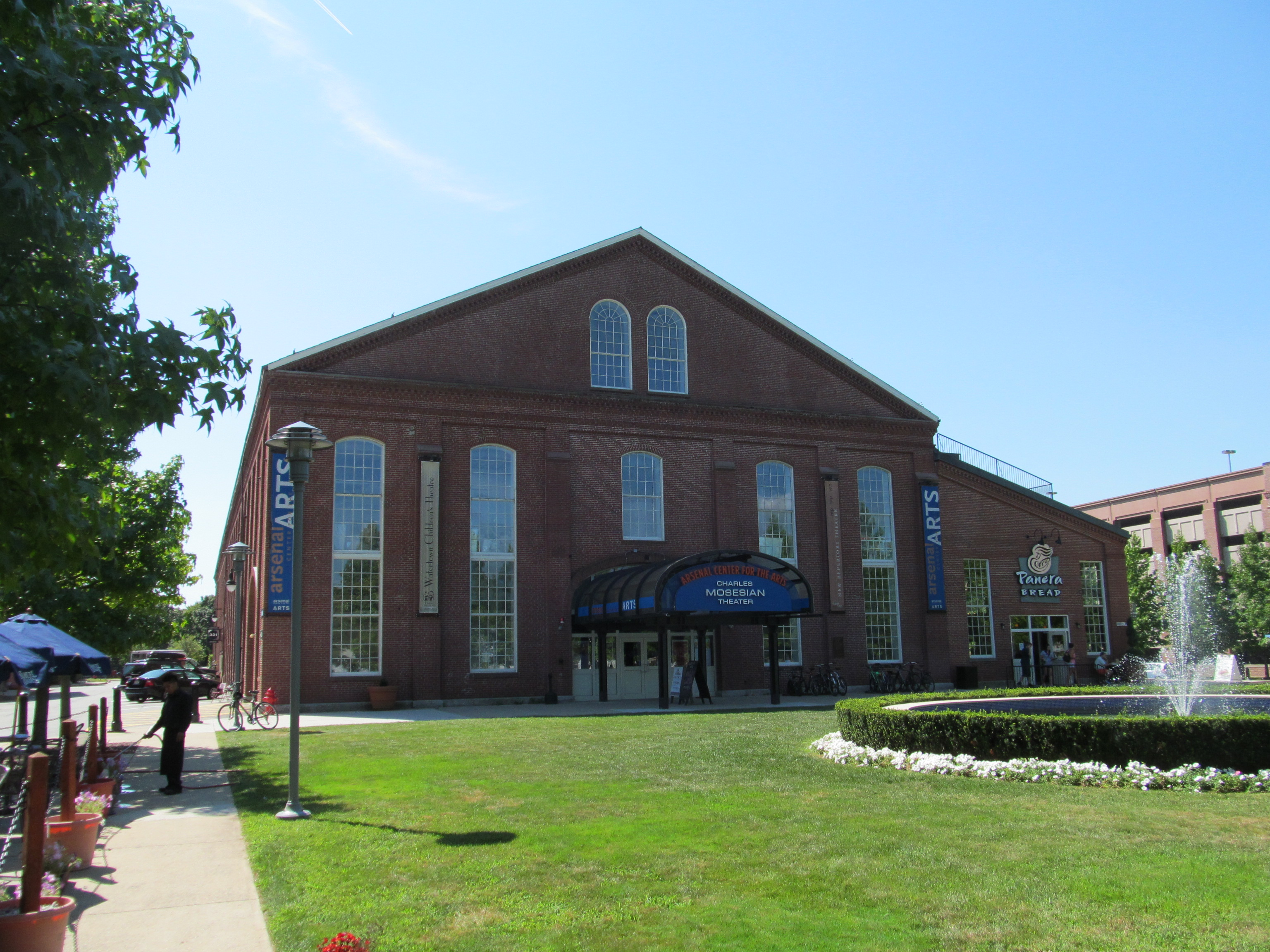 Arsenal Center for the Arts, Watertown Massachusetts